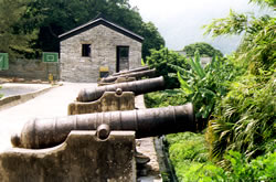 Photograph by Norman Wingrove, Kintak Enterprises Ltd